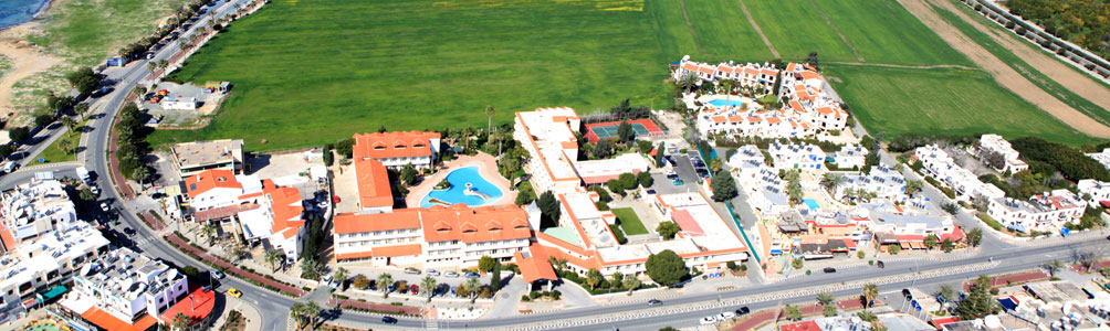 Areal Photo of Neapolis University Paphos, Cyprus